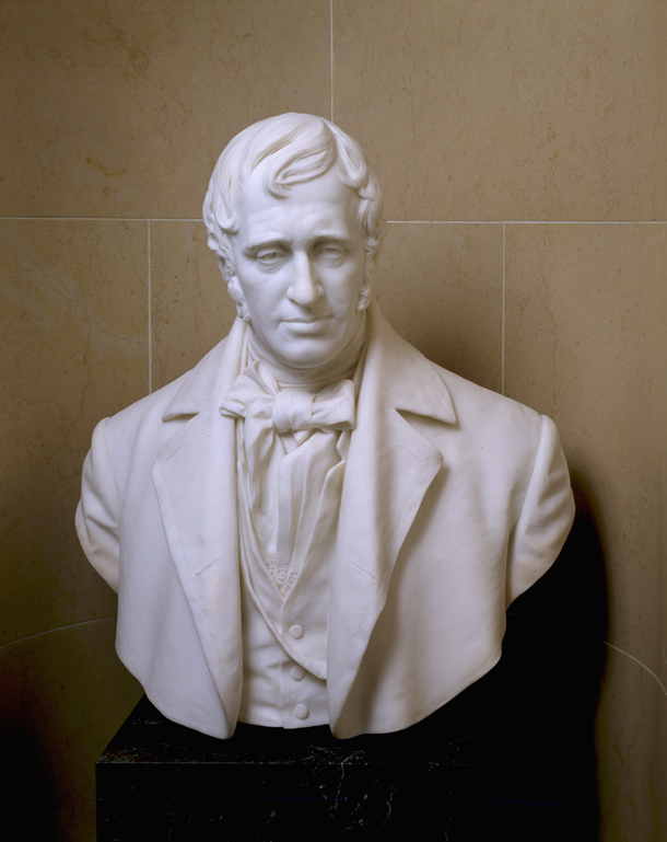 Senate Vice Presidential Bust Collection by Charles Henry Niehaus (1855 - 1935) Marble, 1891 Overall (bust) measurement Height: 31.25 inches (79.4 cm) Width: 26.88 inches (68.3 cm) Depth: 16.63 inches (42.2 cm) Unsigned Cat. no. 22.00006.000